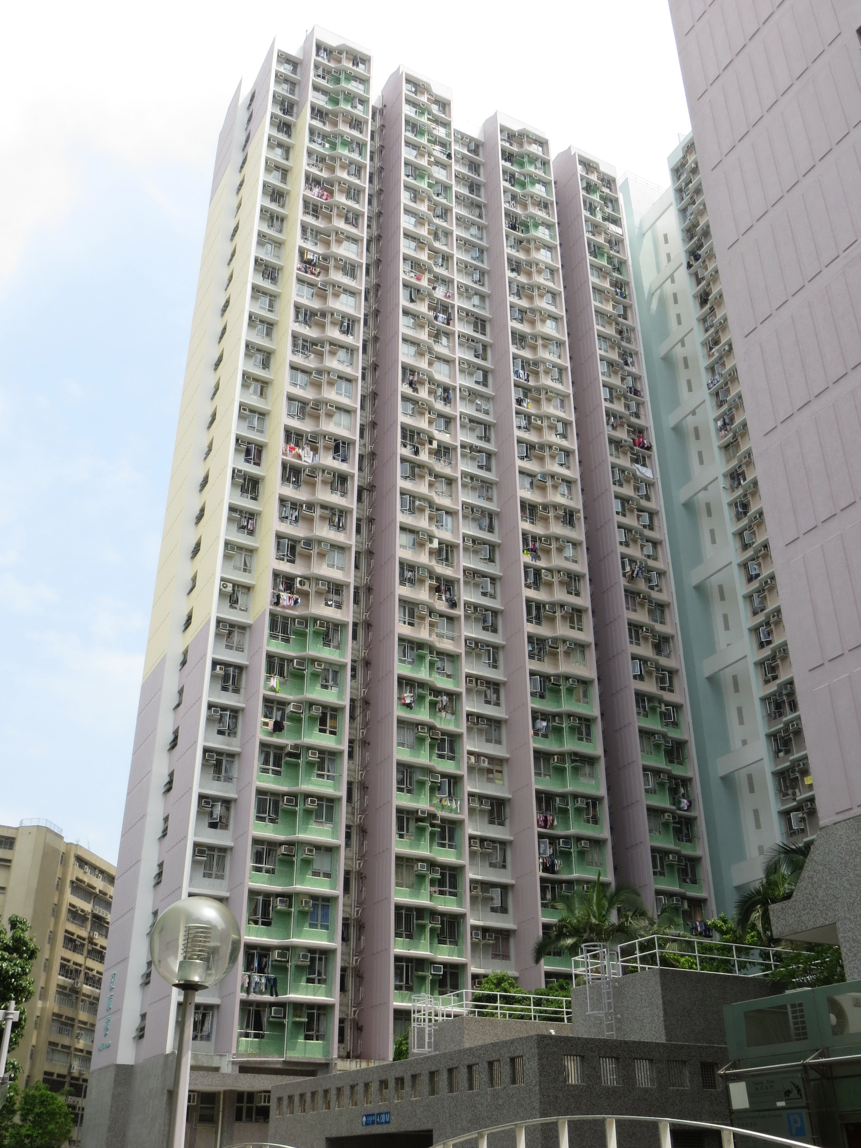 Hung Fai House, Hung Hom Estate, Kowloon, Hong Kong.